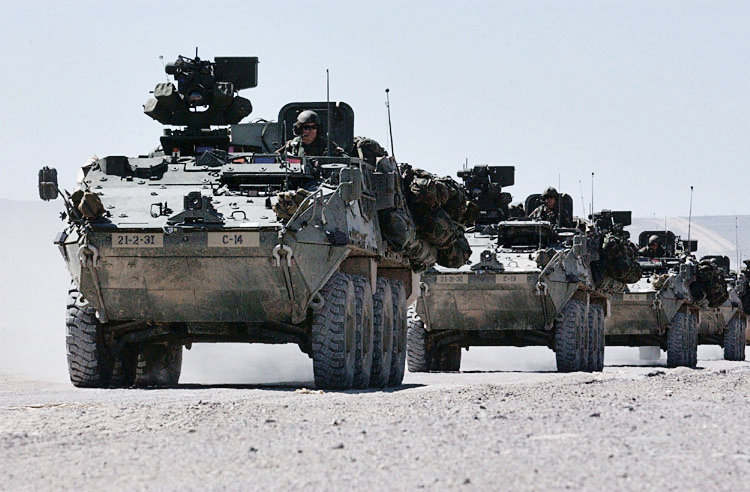 3rd Brigade, 2nd Infantry Division, the Army's first Stryker Brigade Combat Team, made history on March 23rd when the entire bridge moved out of the "Dust Bowl" and into the "box" at Fort Irwin's National Training Center. This marks the first time the SBCT in its entirety has deployed to the field at the same time. (original caption)